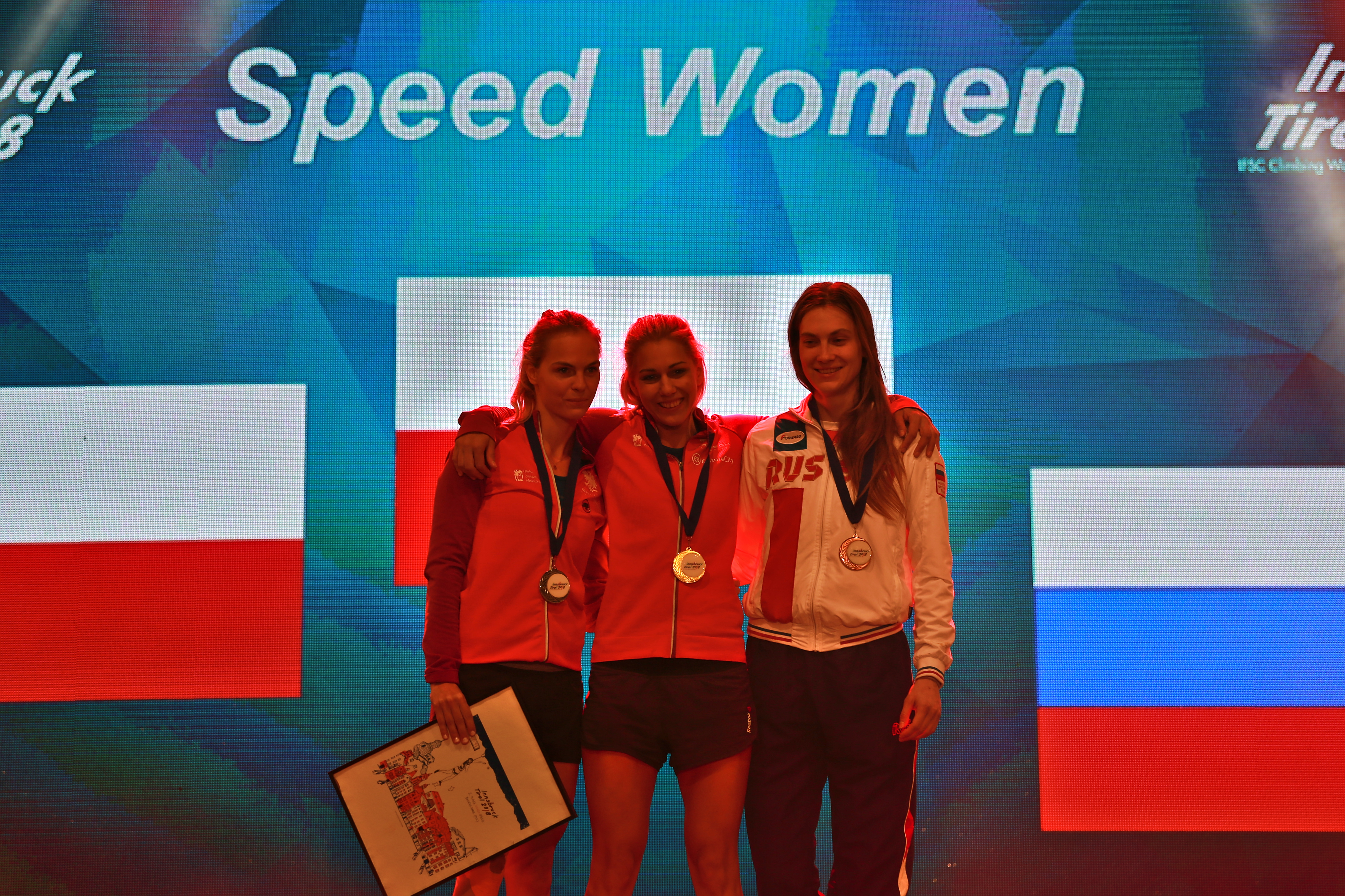 Climbing World Championships 2018 Speed Final Woman winners (from left: 2. Anna Brożek (POL), 1. Aleksandra Rudzińska (POL), 3. Mariia Krasavina (RUS)